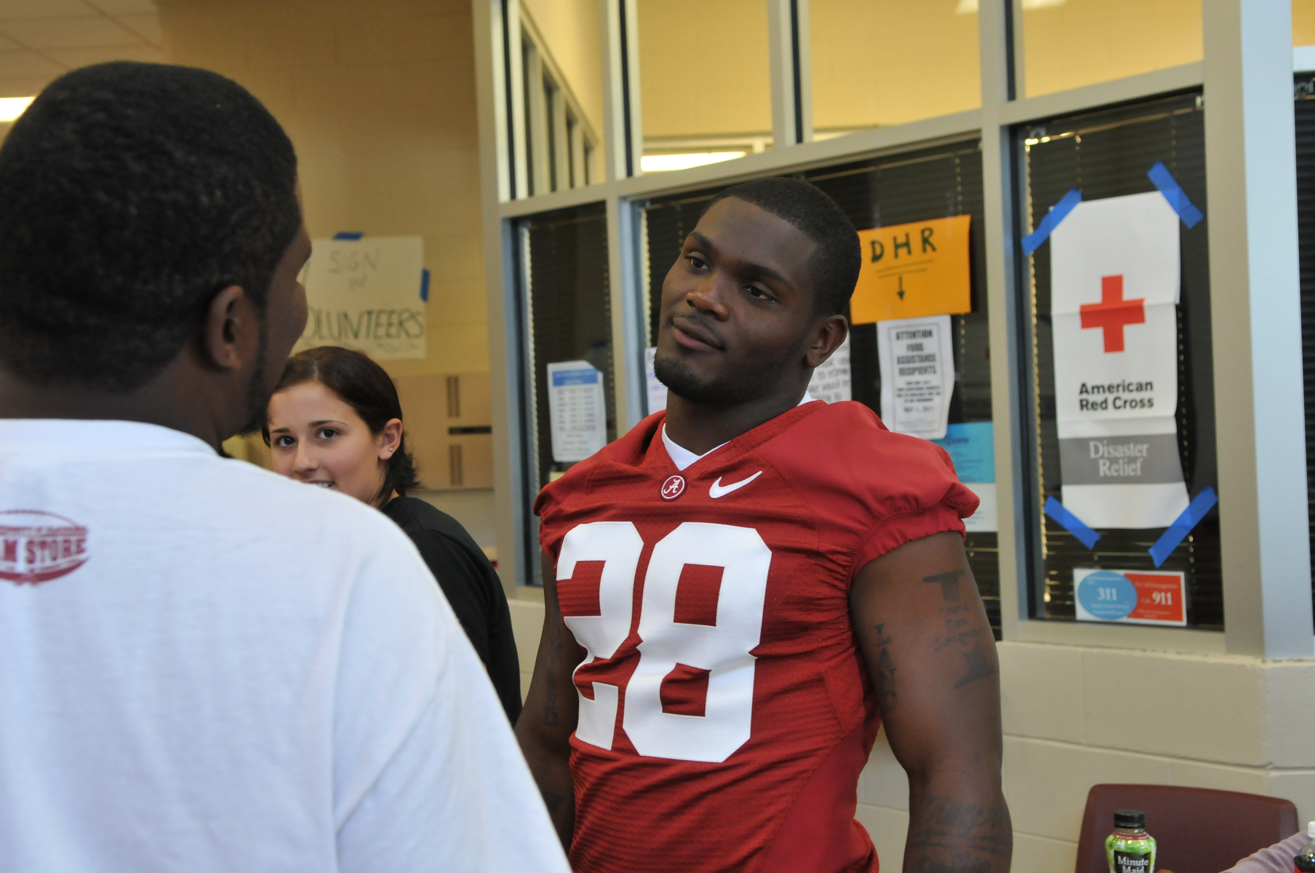 University of Alabama Football All-American Javier Arenas chats with a fan at the Tuscaloosa Red Cross Shelter. Javier passed out FEMA registration flyers, signed autographs, and posed for pictures with fans to help raise the spirits of people who have lost nearly everything.